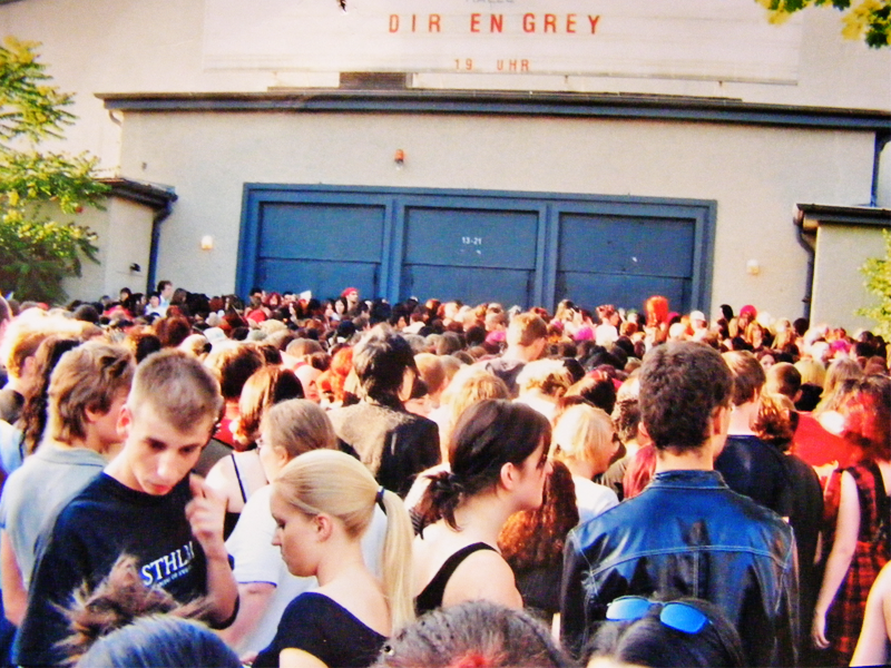 Fans of J-Rock band Dir en grey, hours before their first concert in Berlin, Germany. 28th of May 2005, Berlin, Columbiahalle. (File wrongly labeled as "direngreyberlin2006.png"!)